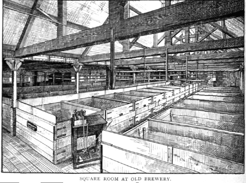 View of the old Bass brewery in 1891, from Alfred Barnard.